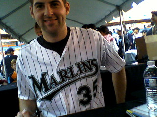 Description Burke Badenhop Date02-07-09SourceI created this work entirely by myself.Author-DANO- (talk) 02:31, 8 February 2009 . . Dshibshm . . 320×240 (35 KB) Burke Badenhop